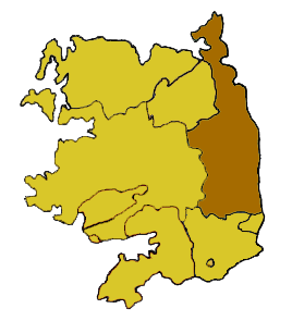 Diocese of Elphin in the Catholic Province of Tuam. This is a current map of the ecclesiastical province in the Catholic Church. The crosses mark where the current Cathedrals of each diocese is located. The specific dioceses are in different colours.